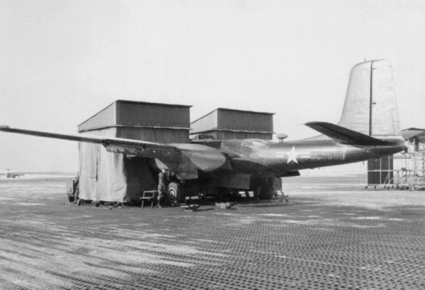 A U.S. Air Force Douglas RB-26C-40-DT Invader (s/n 44-35599) of the 183rd Tactical Reconnaissance Squadron (Night Photo), 117th Tactical Reconnaissance Wing, Alabama Air National Guard in a temporary nose "hangar" at Toul Air Base, France, January 1953. The 183rd TRS flew the RB-26 from 1953 to 1957. 44-35599 was operated by France from September 1956 to March 1959. Returned to USAF service, it was converted to an RB-26P in January 1962. It was finally written off on 21 November 1967.